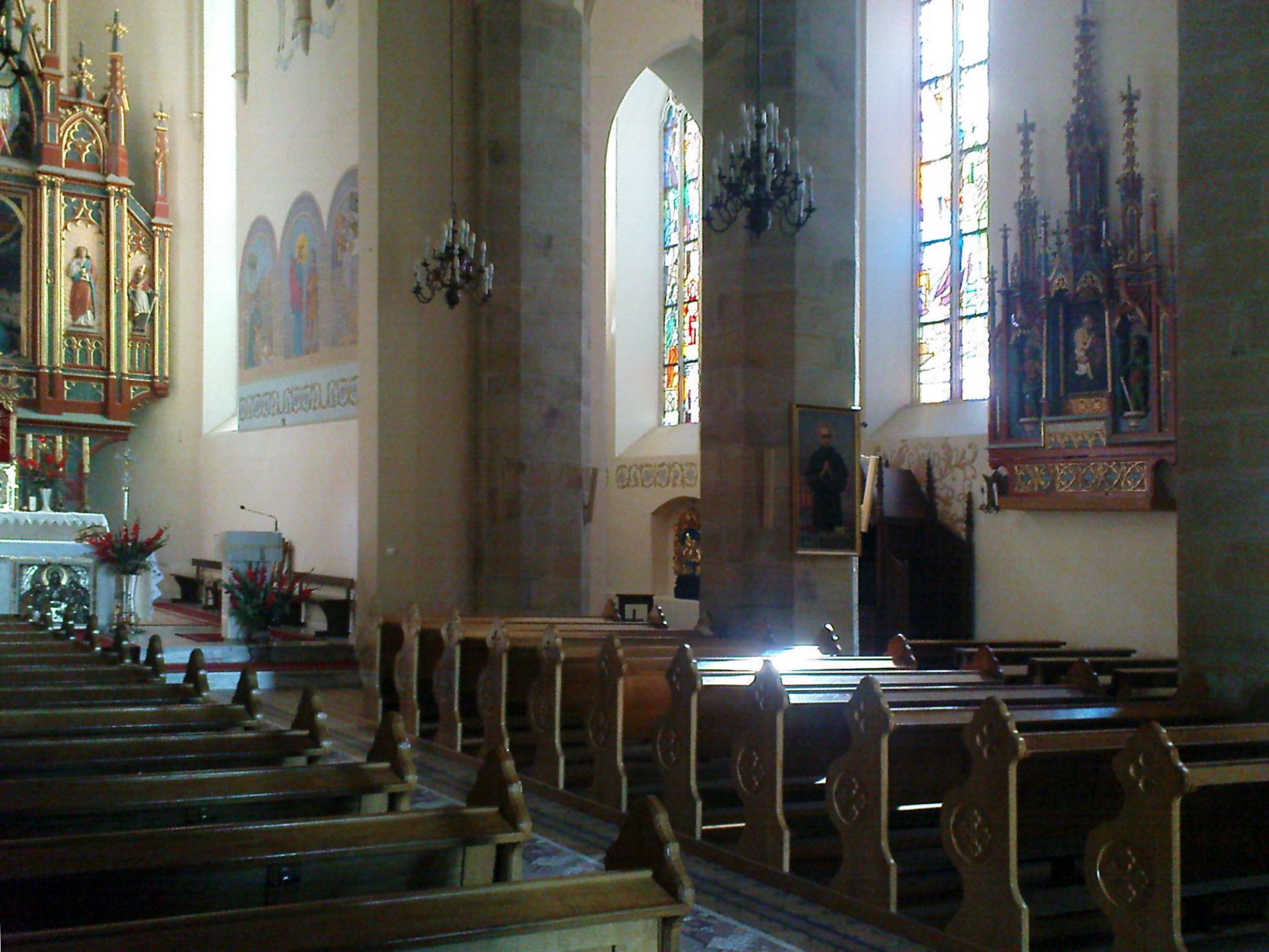 Parish Church of St. Martin the Bishop in Łużna - interior